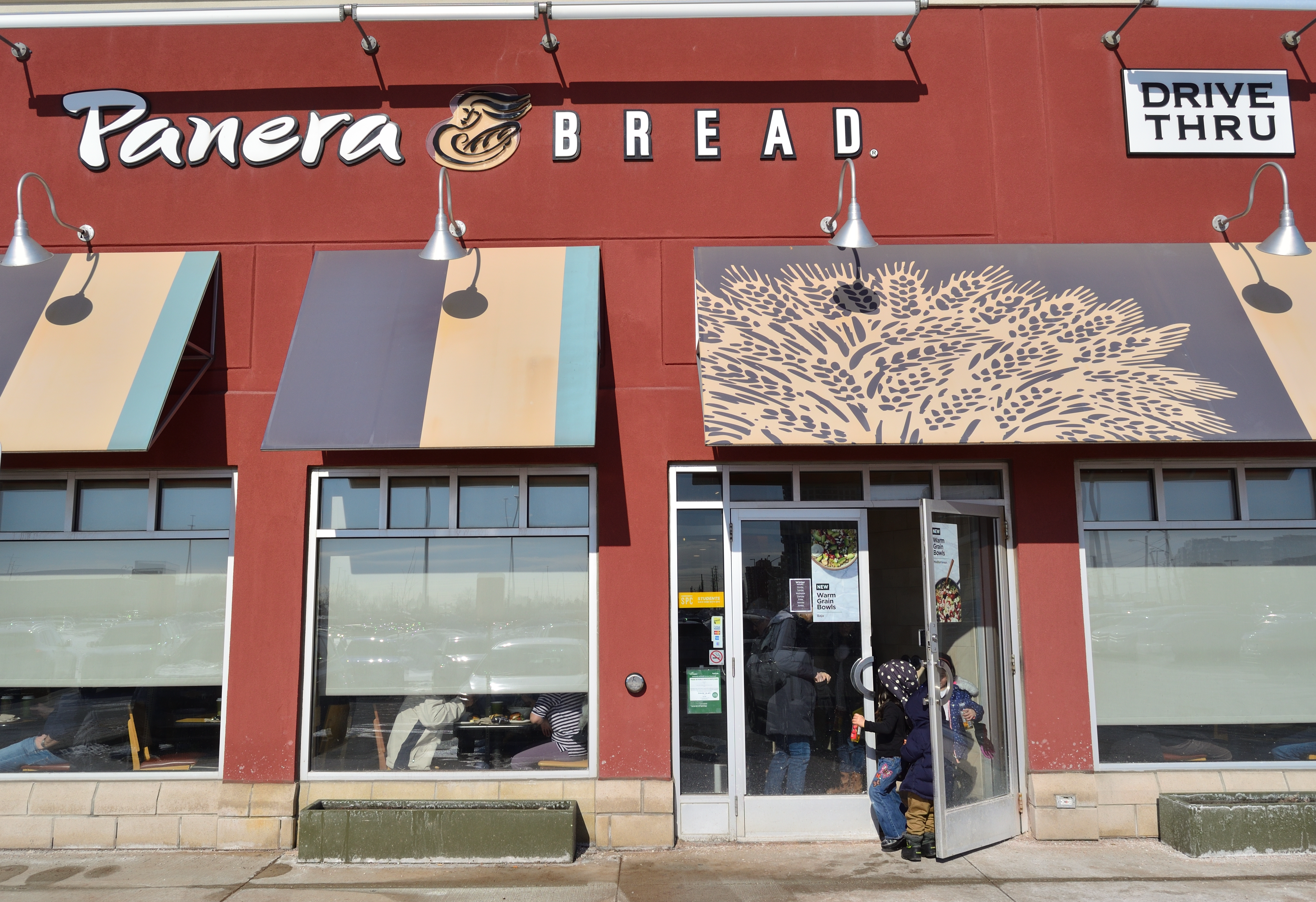 Panera Bread - Address: 9350 Yonge Street, Richmond Hill, ON L4C 5G2